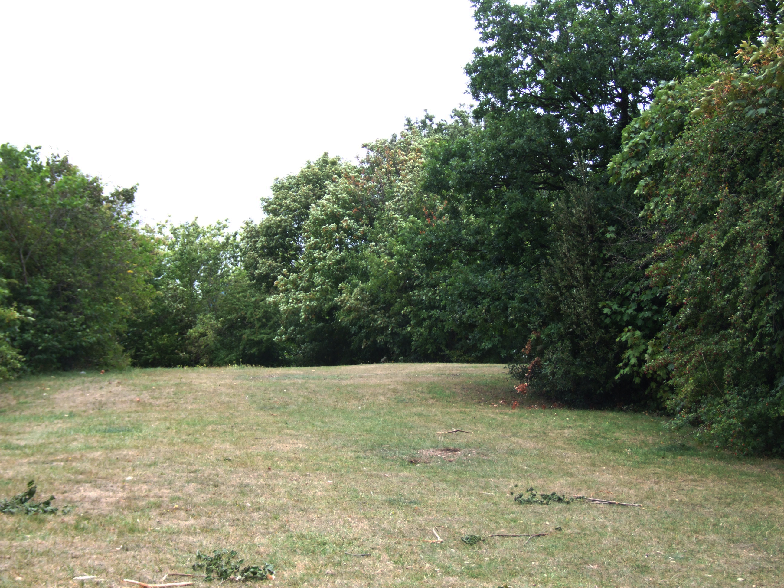 Maryon Park, London. "Blowup" location (murder place).